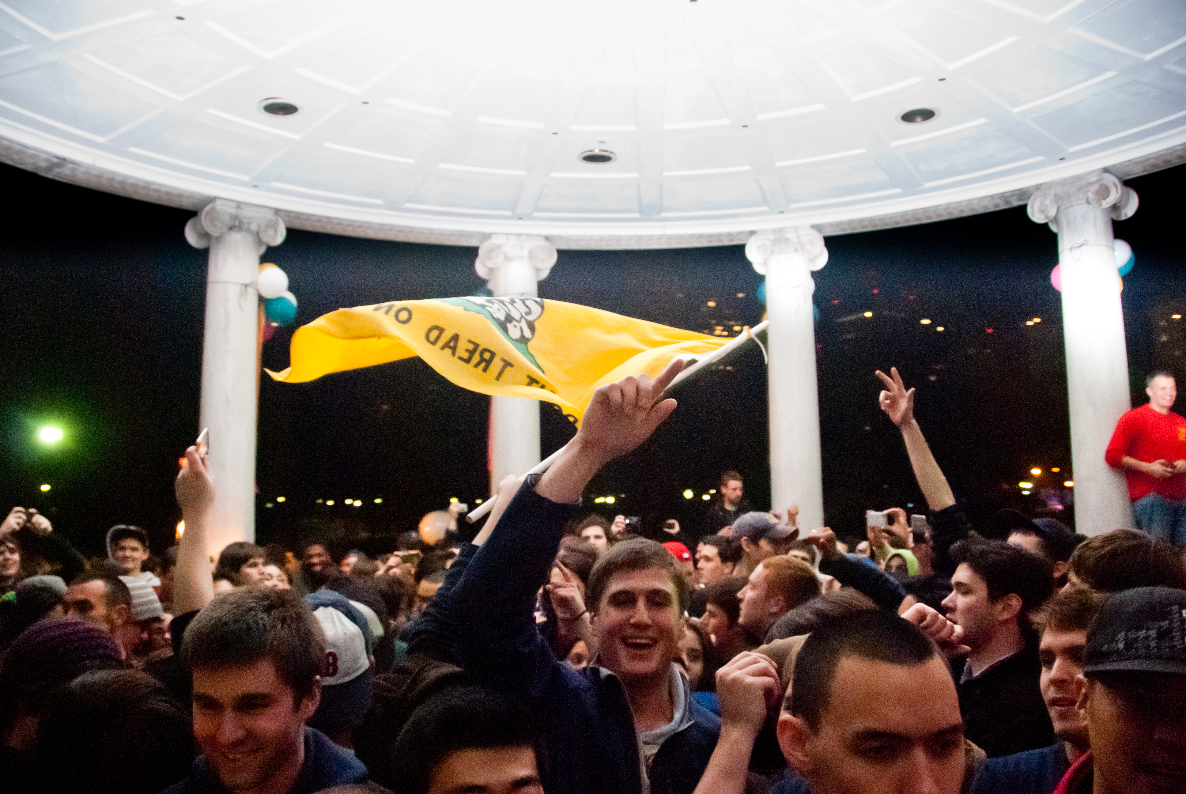 Early morning, May 2, 2011, hours after President Obama announced Osama bin Laden's death. Boston Common.